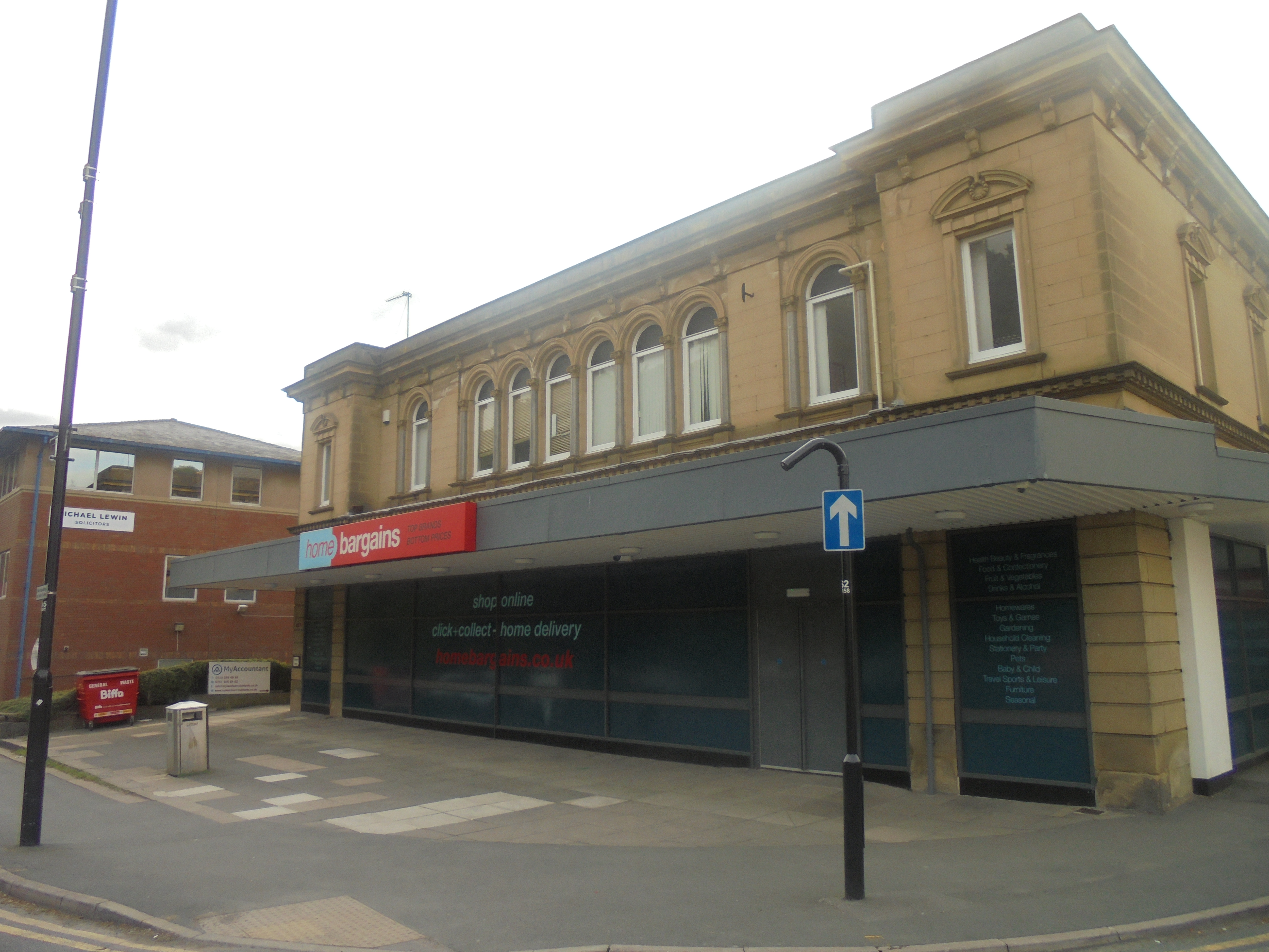 Home Bargains, Oakwood, Leeds, West Yorkshire. Until recently this was the Co-op, before that Somerfield, before that Safeway and I believe a cinema before that. Taken on the evening of Thursday the 17th of May 2018.